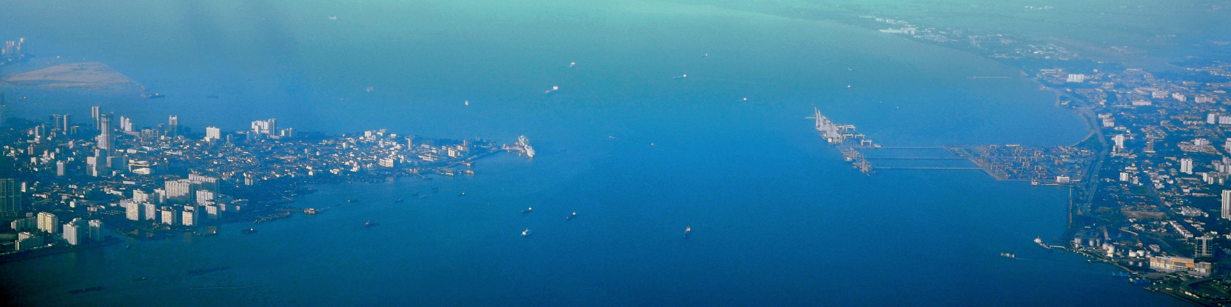 Aerial view of Penang Strait from the south.